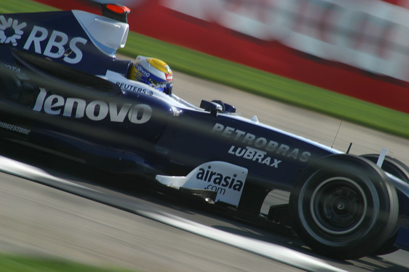 Nico Rosberg driving for Williams at the 2007 United States Grand Prix.